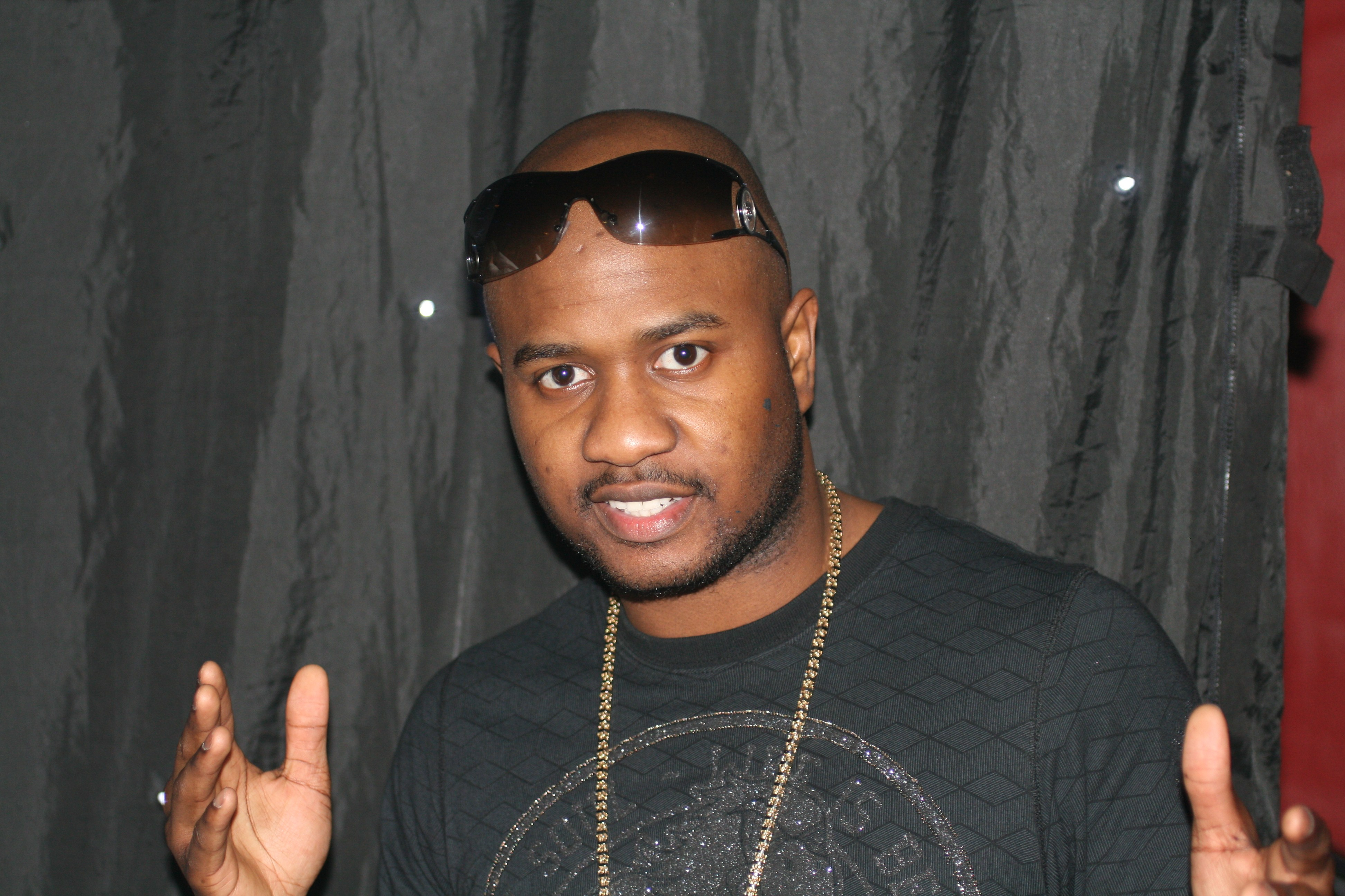 Reggae producer and singer Serani seen at Göta Källare in Stockholm the 26th of januari 2009.